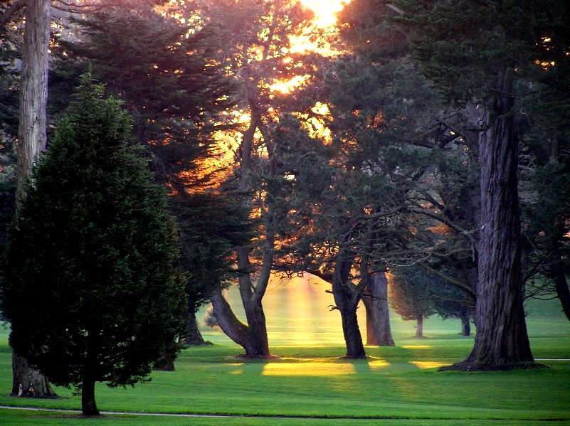 TPC Harding Park ,taken mid-afternoon during winter in 2006